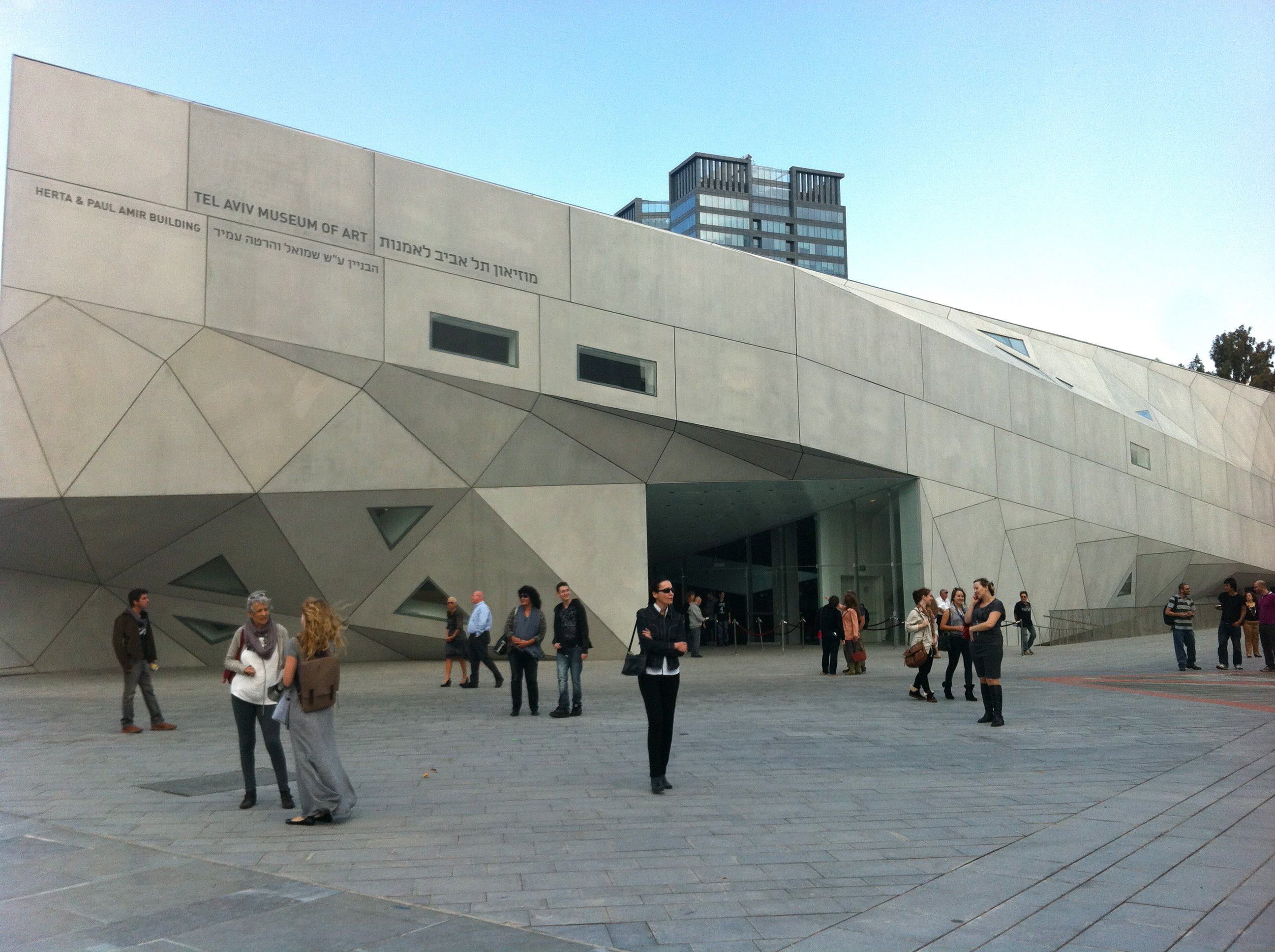 Two days after the opening